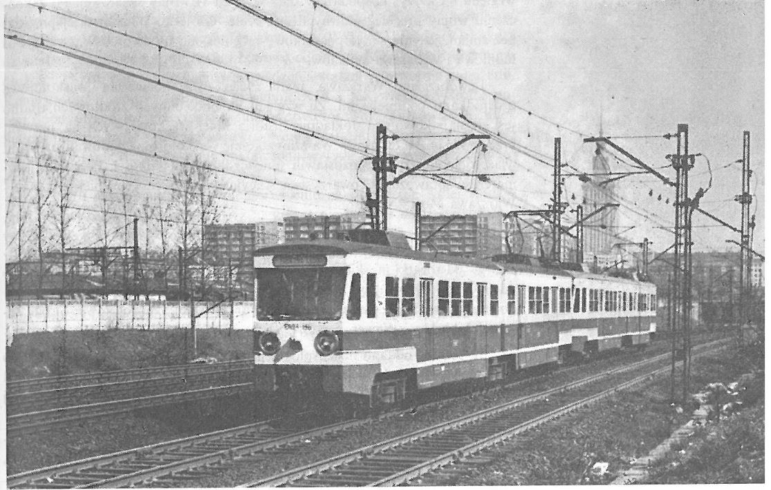 EN94 train used by Warszawska Kolej Dojazdowa near Rondo Zawiszy in Warsaw